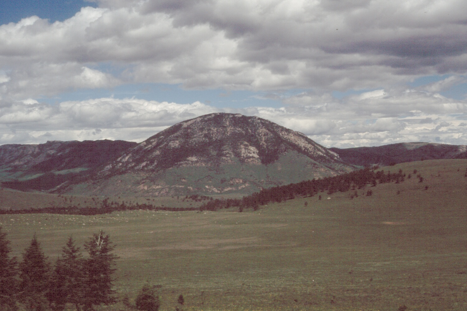 Limestone Butte, Stillwater County, Montana. Laccolith exposed by erosion of overlying strata, near the Stillwater igneous complex. Facing north from NF 846. June 1997.